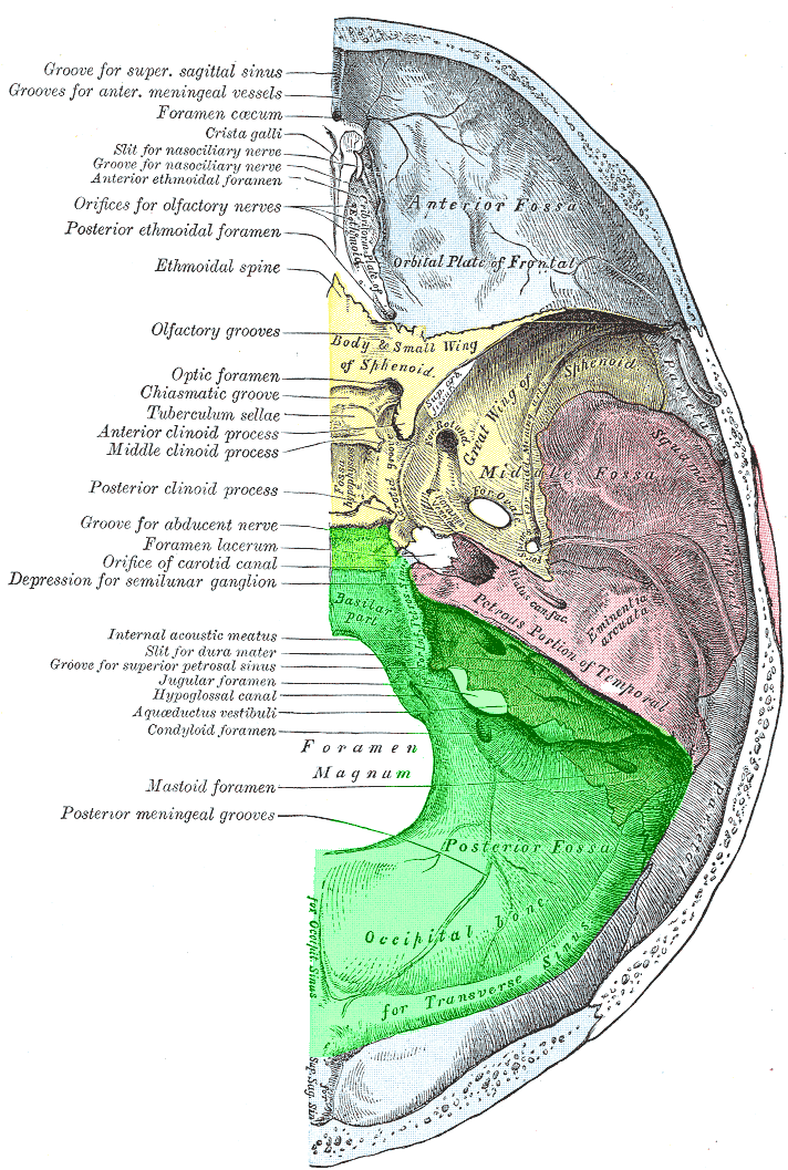 Base of the skull. Inner or cerebral surface. The posterior cranial fossa, labeled in green